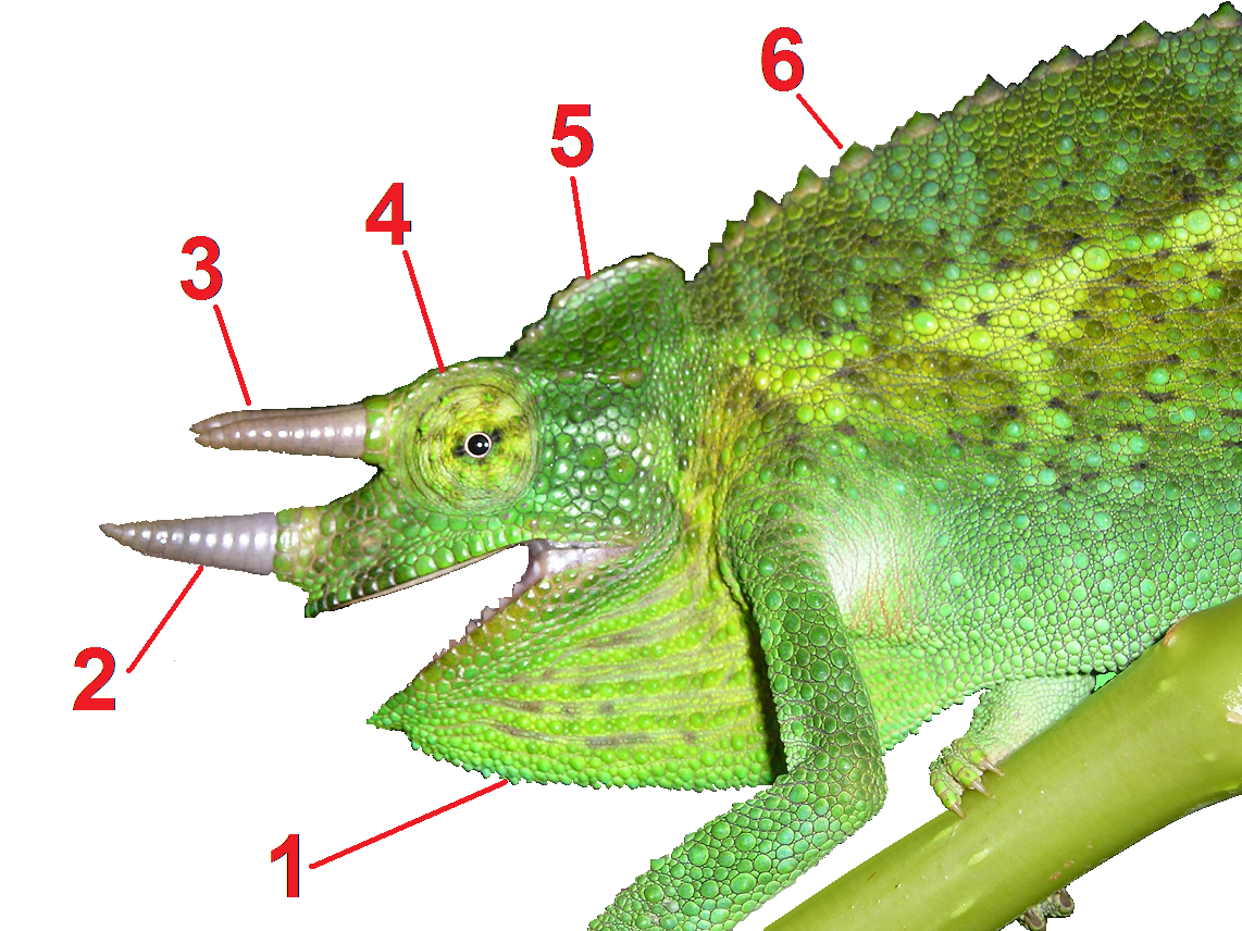 I took this photo on the island of Maui, Hawaii. I give permission for Wikipedia to use it. My name is Rich Torres, Burlingame, Calif. Date17 May 2007 (original upload date)SourceTransferred from en.wikipedia to Commons by Howcheng using CommonsHelper.AuthorOriginal uploader was Movingsaletoday at en.wikipedia Licensing This work has been released into the public domain by its author, Movingsaletoday at the English Wikipedia project. This applies worldwide. In case this is not legally possible: Movingsaletoday grants anyone the right to use this work for any purpose, without any conditions, unless such conditions are required by law. Original upload log The original description page was here. All following user names refer to en.wikipedia. 2007-05-17 00:50 Movingsaletoday 2288×1712× (848281 bytes) I took this photo on the island of Maui, Hawaii. I give permission for Wikipedia to use it. My name is Rich Torres, Burlingame, Calif.